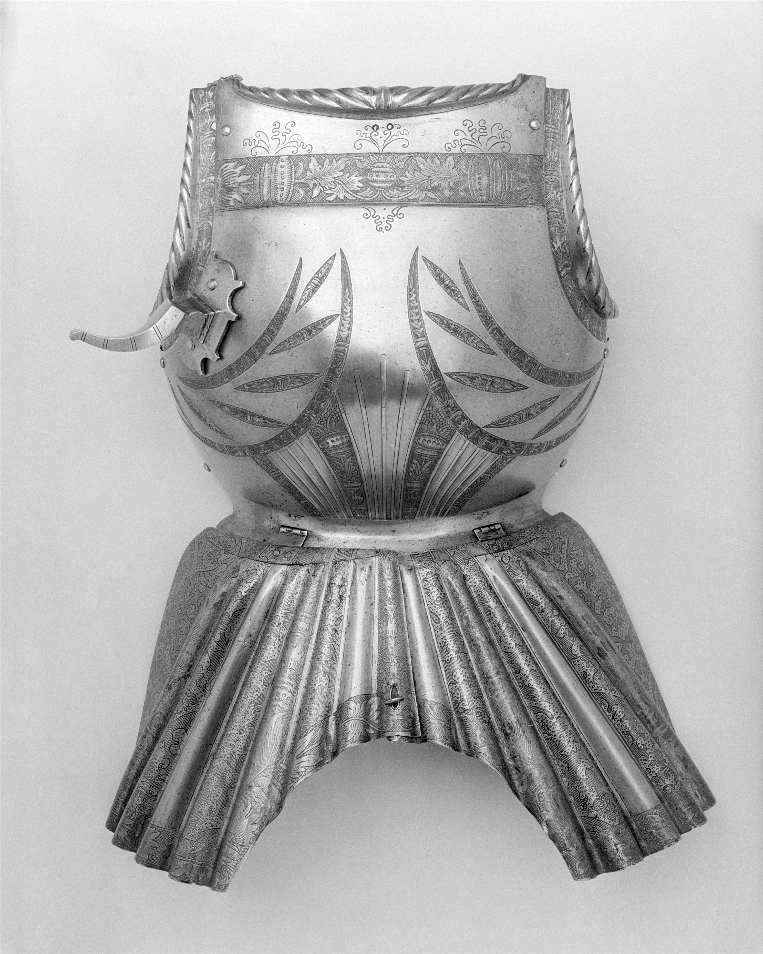 German, Augsburg and Landshut; Armor; Armor for Man